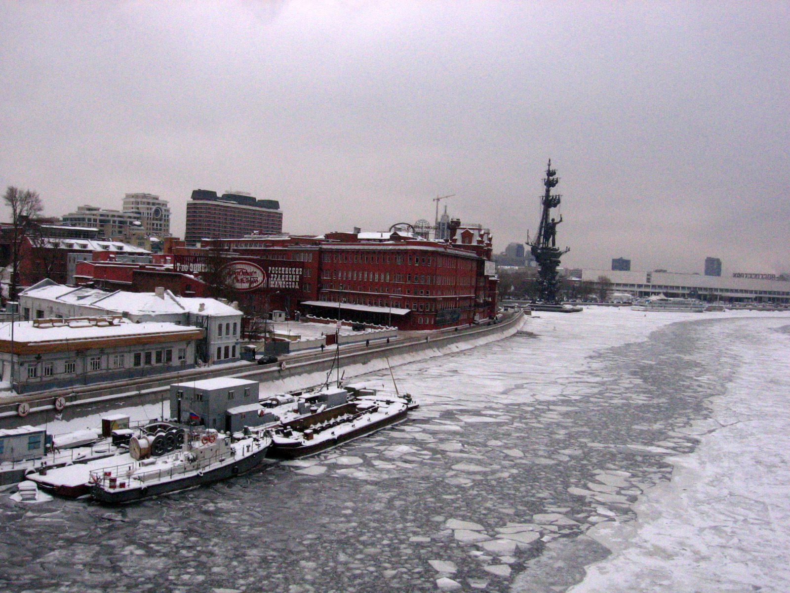 Moskva River